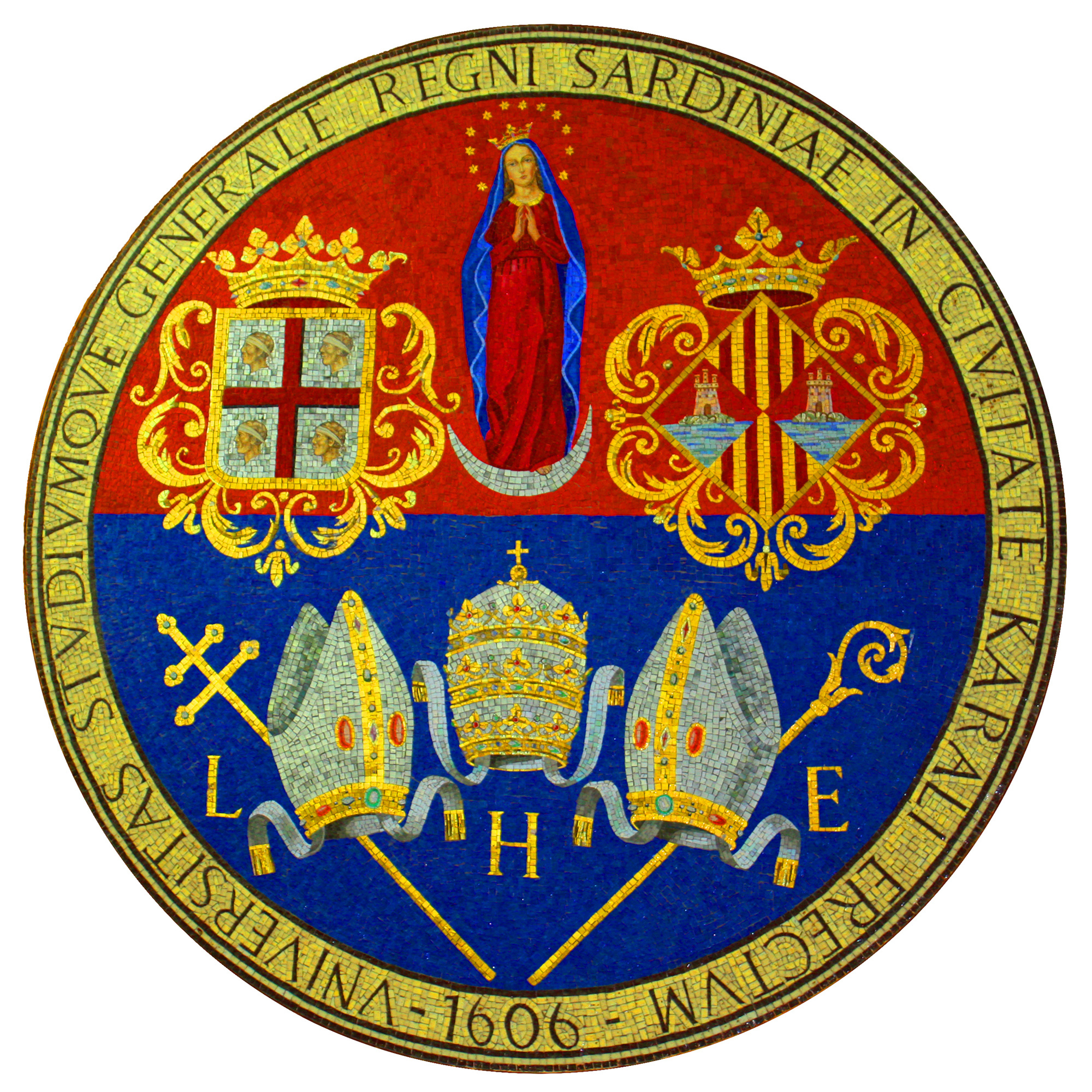 Mosaico dello stemma dell'Università di Cagliari presso ex-clinica Aresu